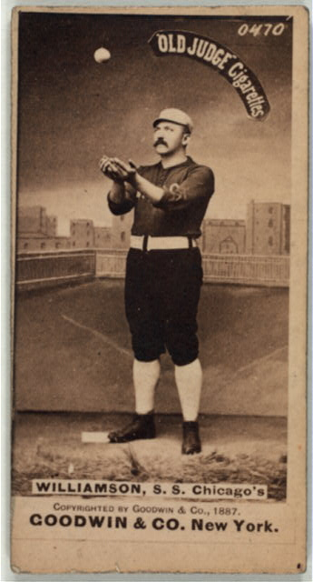 Third baseman Ned Williamson on an 1887-90 Goodwin & Company baseball card (Old Judge (N172). Image from: Explanation for public domain: copyright expired. Datoteka:Ned Williamson Baseball Card.jpg